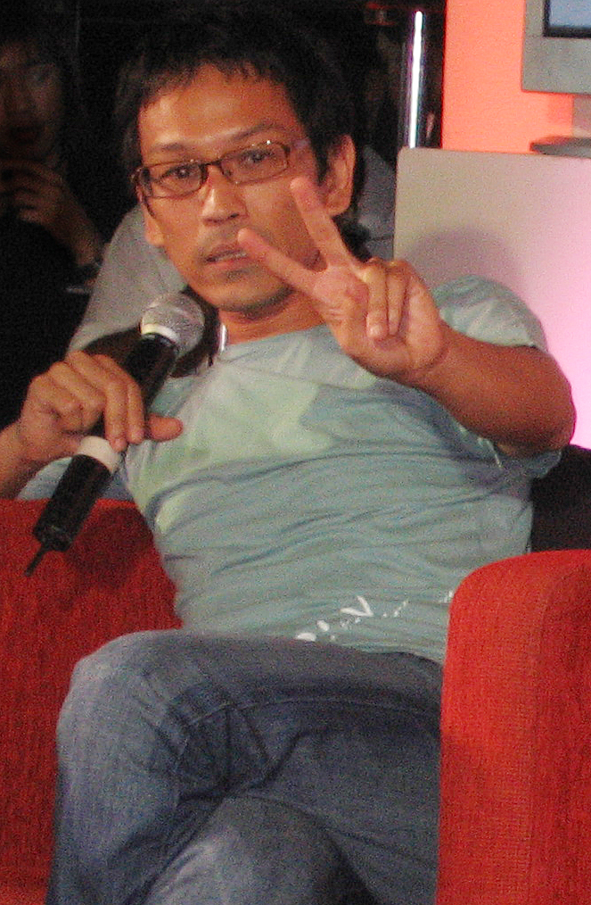 Thai film director Pen-ek Ratanaruang at the press preview for Ploy at SF World in CentralWorld, Bangkok.